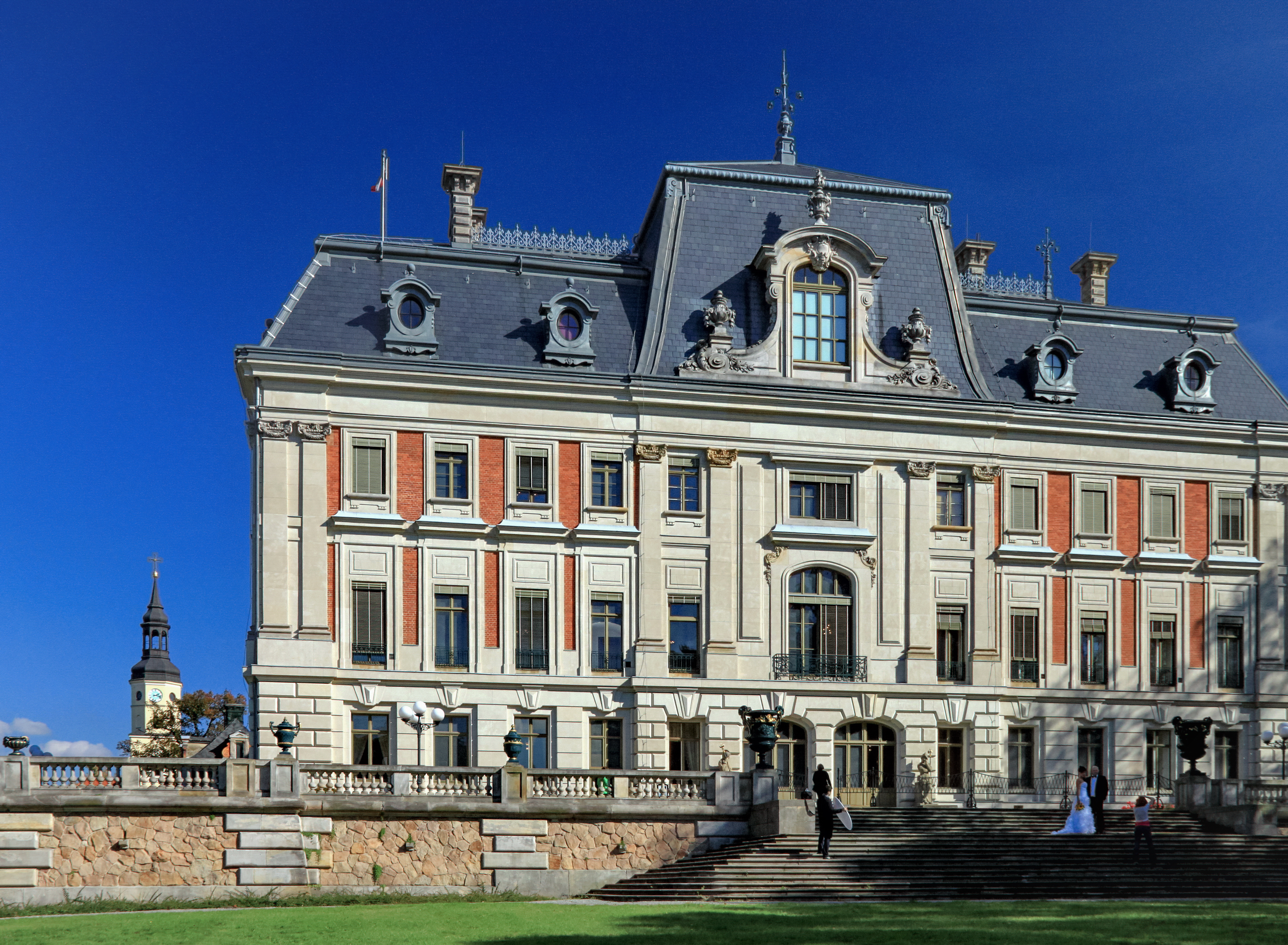 Palace (Castle Museum). Pszczyna, Silesian Voivodeship, Poland.